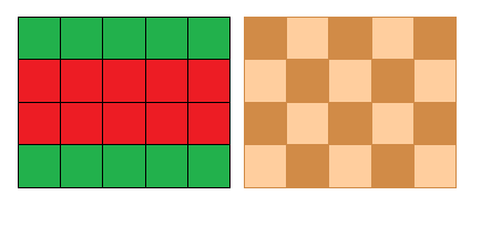 two 4x5 chess boards which are coloured in two ways